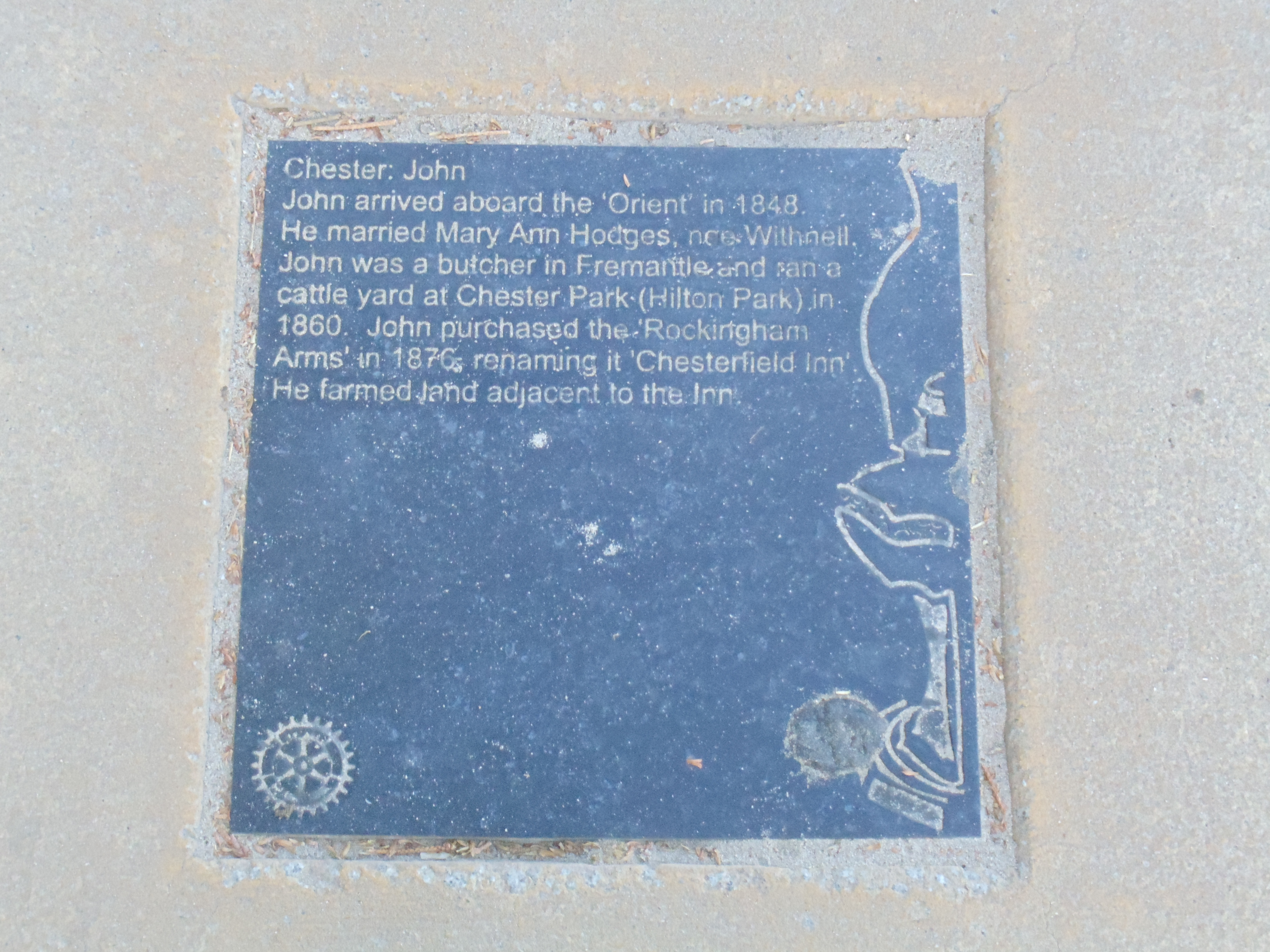 Plaque about John Chester on the Rockingham Waterfront Pioneer Rotary Walk in Rockingham, Western Australia. It reads, "Chester: John John arrived aboard the 'Orient' in 1848. He married Mary Ann Hodges, nee Withnell. John was a butcher in Fremantle and ran a cattle yard at Chester Park (Hilton Park) in 1860. John purchased the 'Rockingham Arms' in 1876 renaming it 'Chesterfield Inn'. He farmed land adjacent to the Inn."